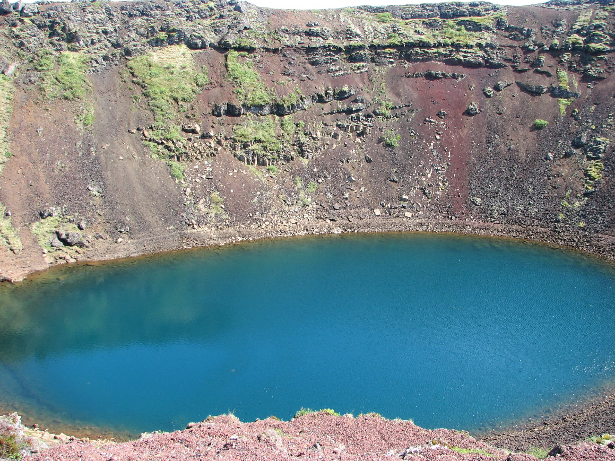 Kerid crater